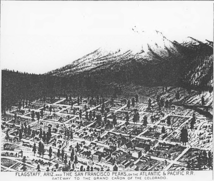 Depiction of Flagstaff and the San Francisco Peaks in 1892, with caption